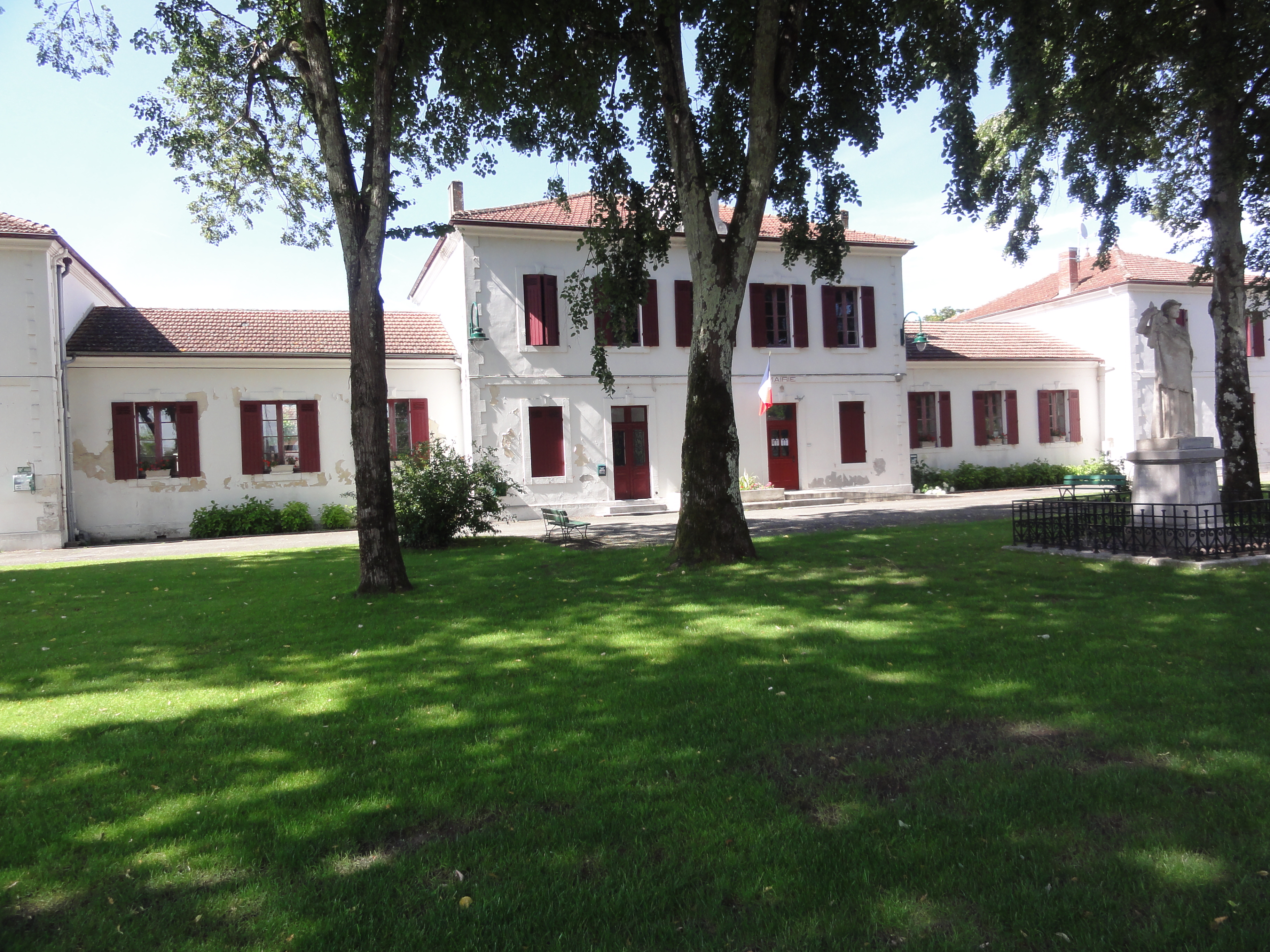 Taller (Landes) mairie